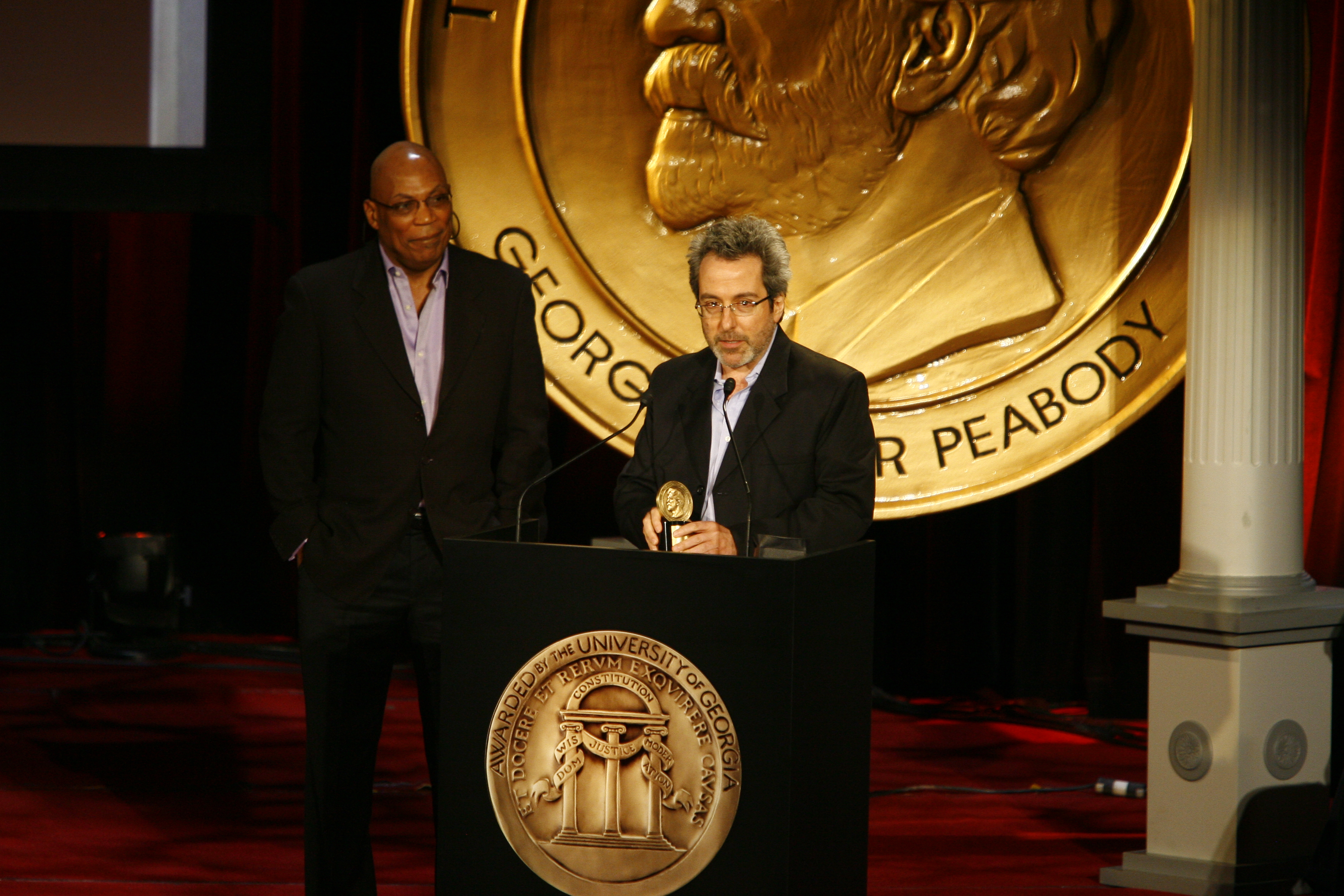 Paris Barclay and Warren Leight 69th Annual Peabody Awards Luncheon Waldorf=Astoria Hotel New York, NY USA May 17, 2010